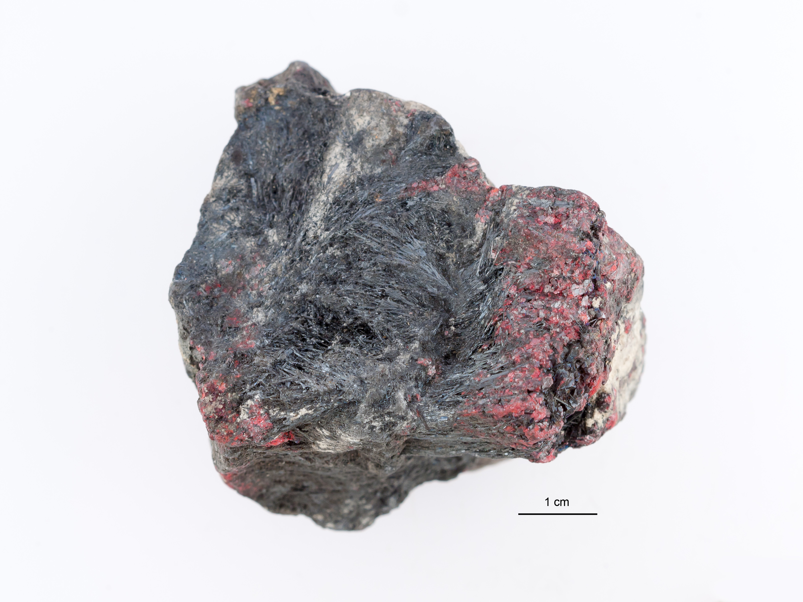 Crystals of red cinnabar on metallic stibnite matrix. Cinnabar is the common ore of mercury. More info about this file and about this specimen at